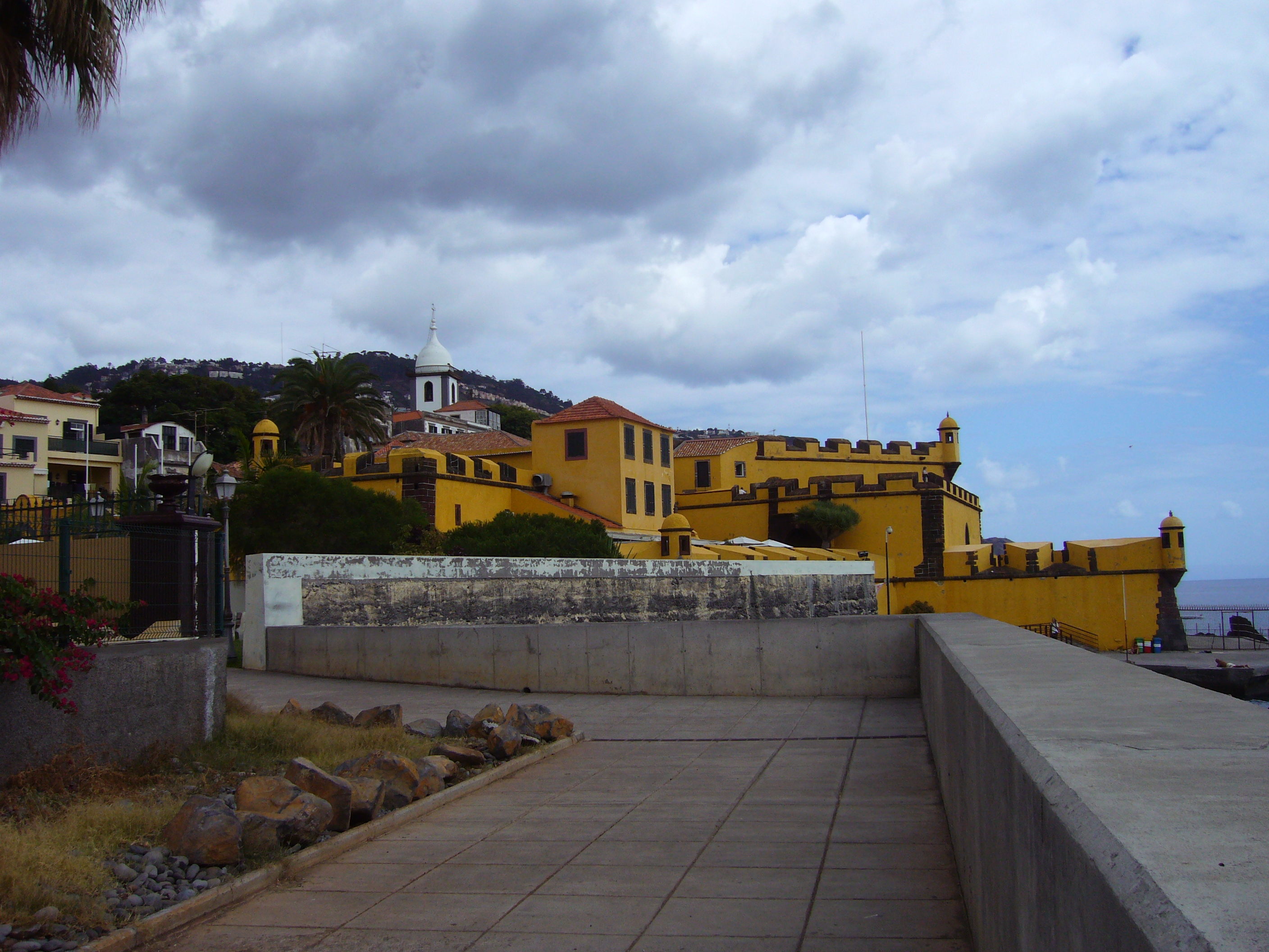 The fortress of São Tiago in Funchal - view from the West